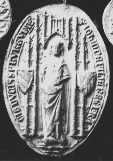 Joan III of Burgundy